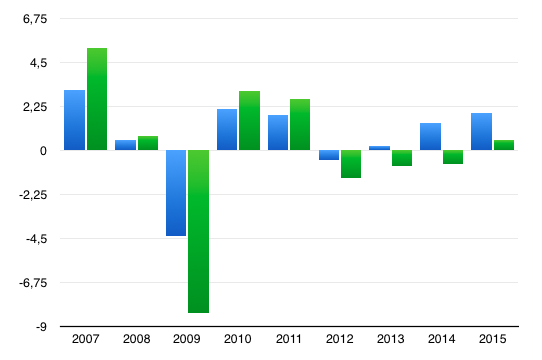 Blue: EU20 Green: Finland. Real GDP growth rate - volume Percentage change on previous year. Data from Eurostat